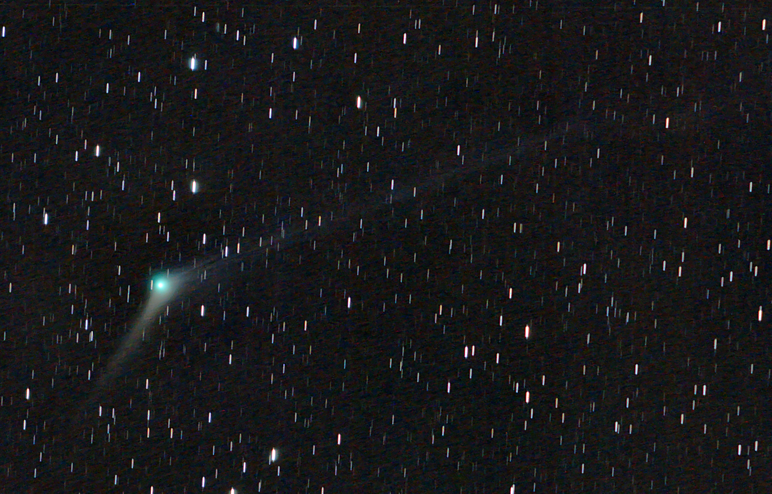 C/2013 US10 Catalina, 06-Dec-2015 J87 La Cañada